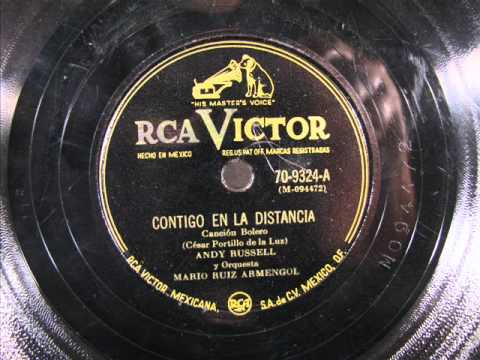 RCA Victor Mexico's Pressing of Record Disc "Contigo en la distancia" 1954